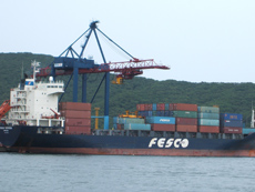 FESCO container ship in Port Vostochniy, at the Pacific end of the trans-Siberian railway. Original caption: "Consul General Visits Port Vostochniy "Russian Far Eastern Shipping Company (FESCO) container ship in port Vostochniy. "As the Russian Far East develops, ports like Vostochniy near Nakhotka play an increasingly important role. The port handles coal and lumber and imports and exports goods to China, South Korea, and Japan. The Consul General visited the port and spoke to port officials about how U.S. companies can become more involved. Port officials reported that they had been to the United States and are very interested in U.S. equipment for handling loading coal. American long haul trucks are also being used more frequently as they are well-suited for Russia’s conditions. Vostochniy can load goods, including automobiles, directly on to the Trans Siberian railway."